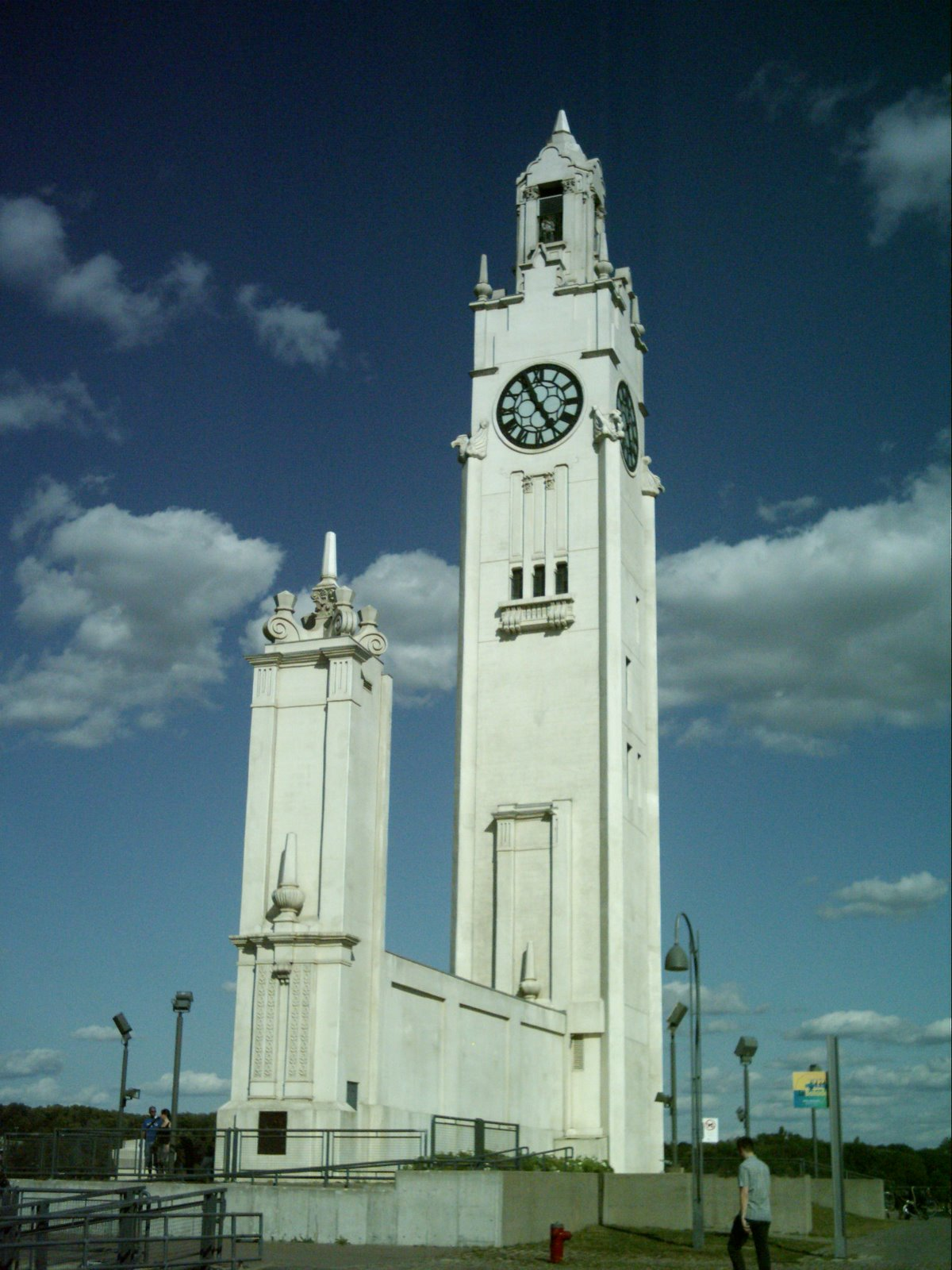 Montreal Clock Tower